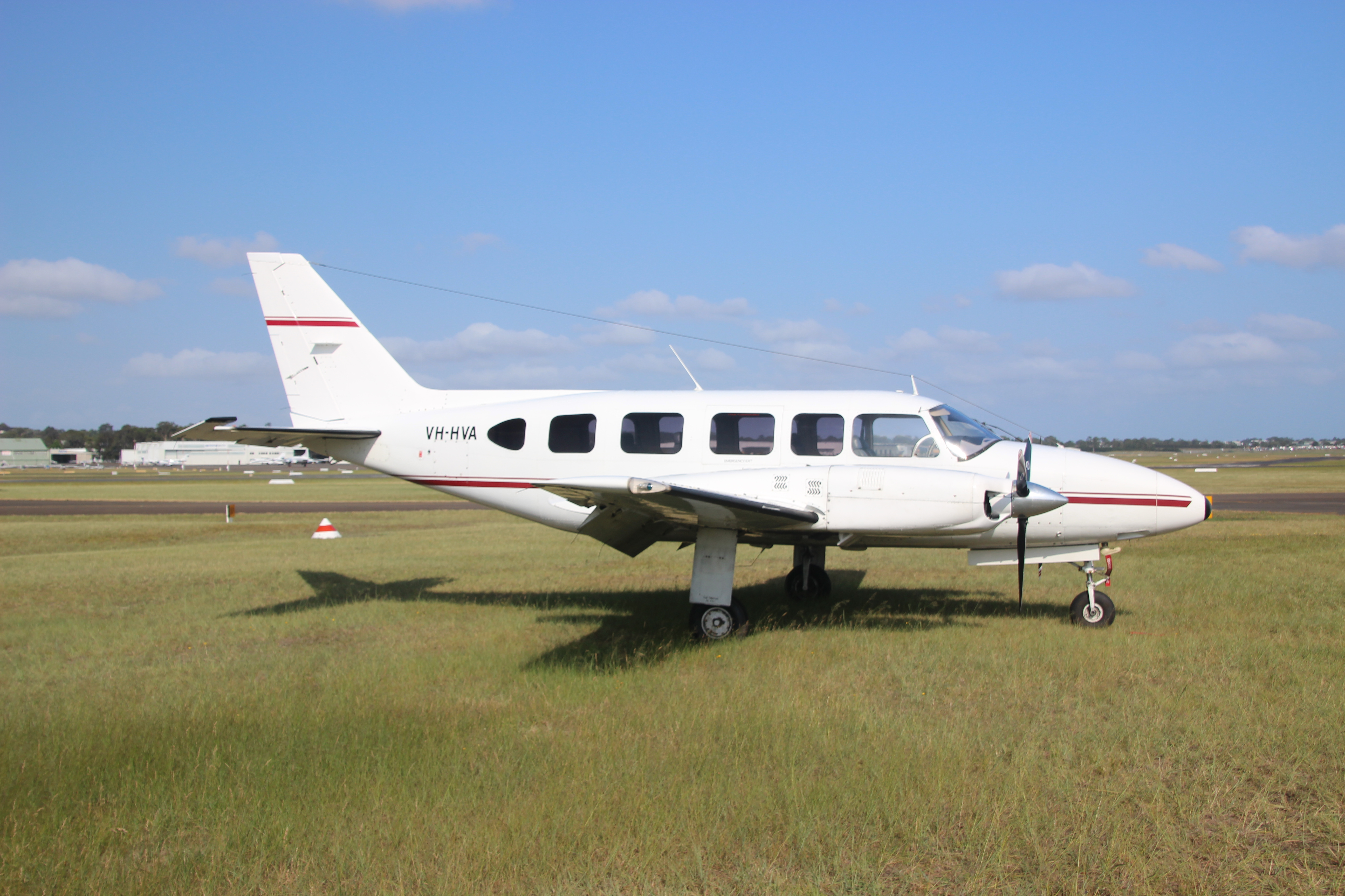 An Embraer EMB 820C, license-built version of the Piper PA-31-350 Chieftain, at an airport in Australia.